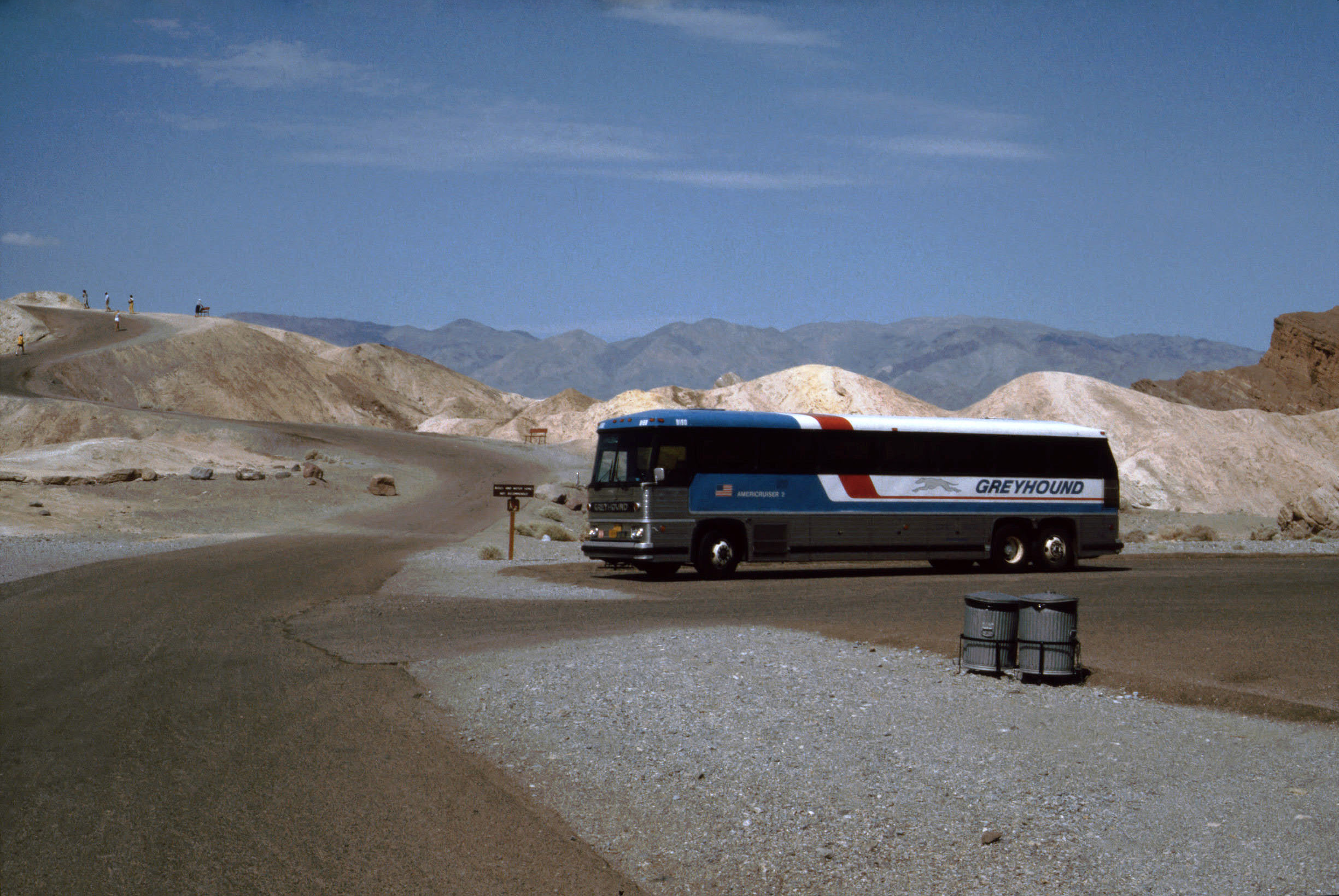 Death Valley,Zabriskie Point,Tourist Parking